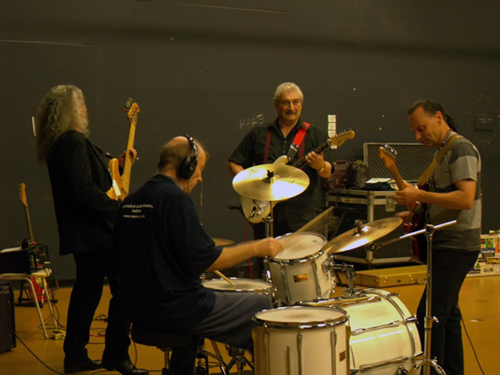 The Atlantics rehearsing in November 2007 Lineupat the time of the photo, in 2007: Martin Cilia - guitar Jim Skiathitis - guitar Michael Smith - Bass Peter Hood - drums